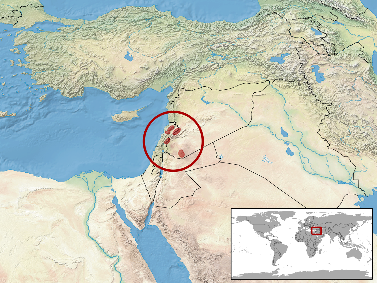 geographic distribution of Montivipera bornmuelleri (Native: Lebanon; Syrian Arab Republic)